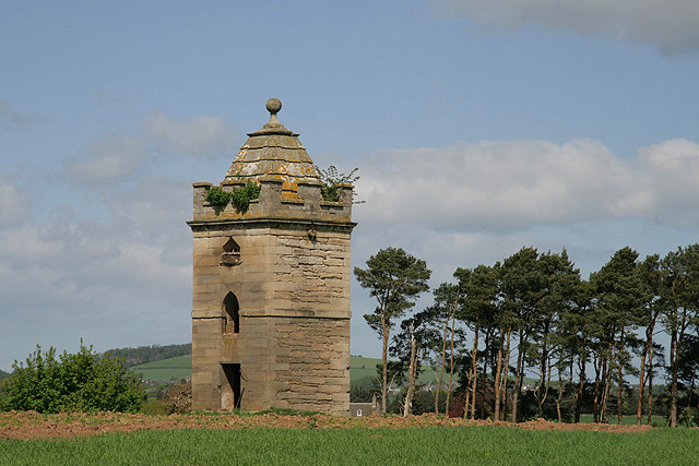 Nisbet Hill Doocot This late 18th century doocot, with its unique pentagonal plan, has a crenellated parapet and ribbed stone roof.